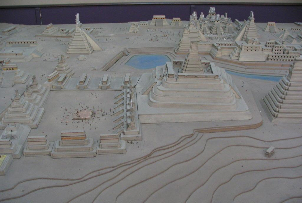 Reconstruction of Tikal, 8th century